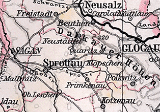 Detail from a map of Silesia.